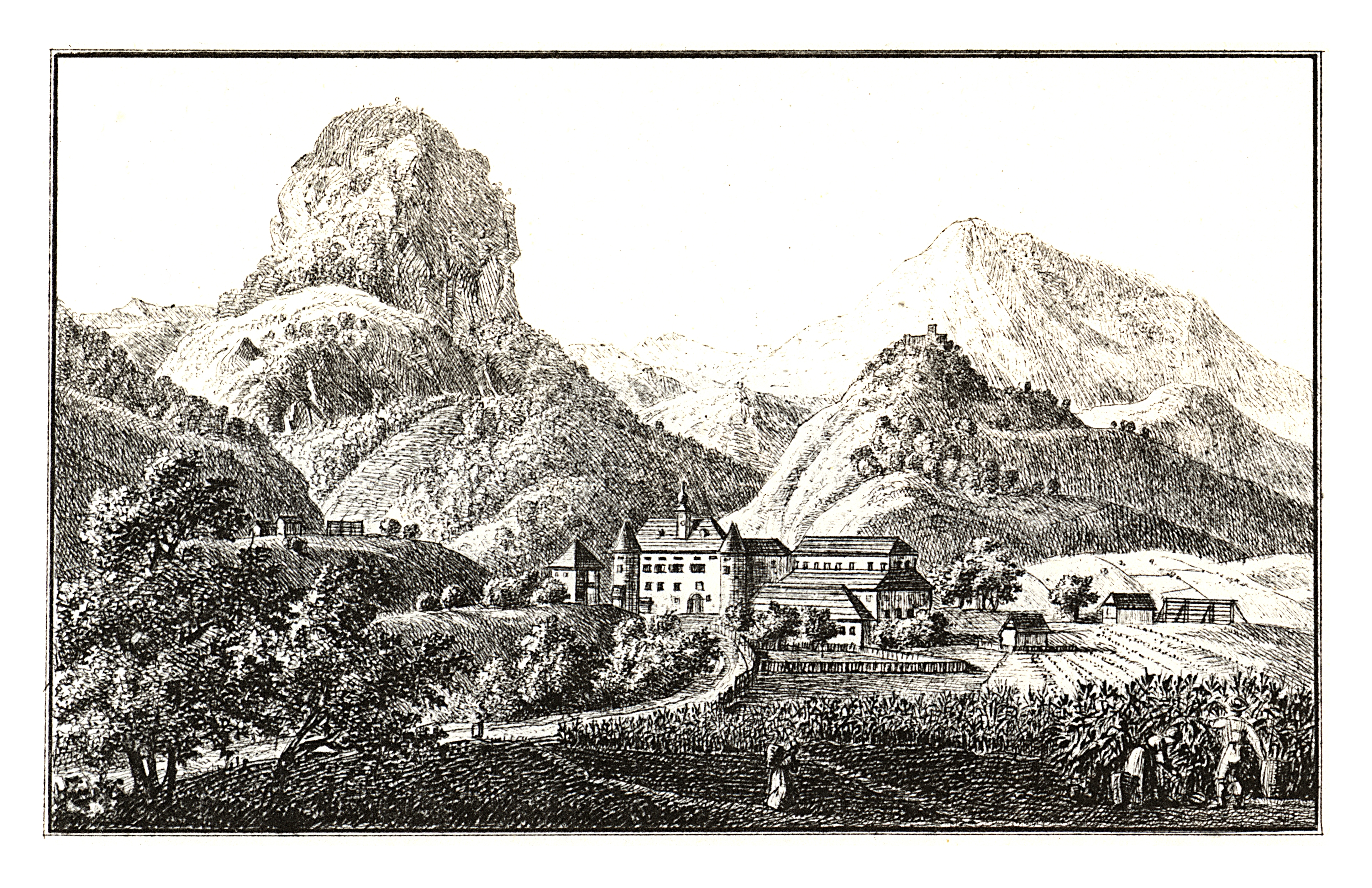 J. F. Kaiser - lithographirte Ansichten der Steyermärkischen Städte, Märkte und Schlösser, Graz 1824-1833 Joseph Franz Kaiser (1786–1859) Alternative names J. F. KaiserDescriptionAustrian printer and editorDate of birth/death 11 March 1786 19 September 1859Location of birth/death Graz (Styria) GrazAuthority control : Q1499963 VIAF: 30629353 ISNI: 0000 0000 3083 0153 LCCN: n87141671 GND: 129880159 NLP: A24960305 WorldCat creator QS:P170,Q1499963 . Scanprojekt Community Projektbudget 2012 This scan or this PDF-file was created within the GLAM-project Bookscanning, supported by Wikimedia Germany and Wikimedia Austria as a part of the community-project to capture books, documents and pictures which are not eligible to copyright or for which the copyright has expired. This document describes or depicts an object which is located in Austria today. Send requests for uncompressed scans to Hubertl. This work is in the public domain in its country of origin and other countries and areas where the copyright term is the author's life plus 100 years or less. You must also include a United States public domain tag to indicate why this work is in the public domain in the United States. This file has been identified as being free of known restrictions under copyright law, including all related and neighboring rights.